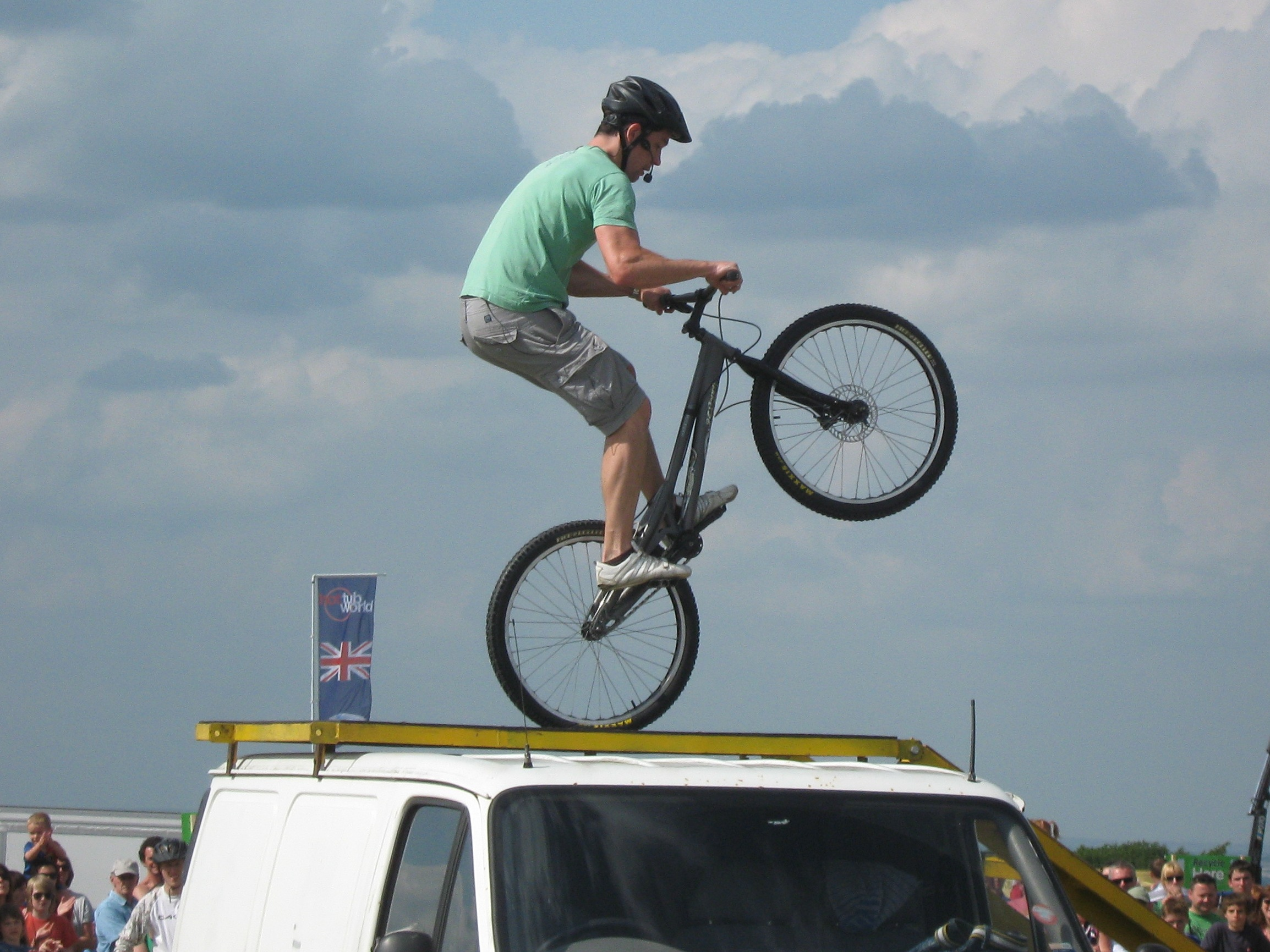 Trials Kings Bike Displhy Team at Honley Show 2009